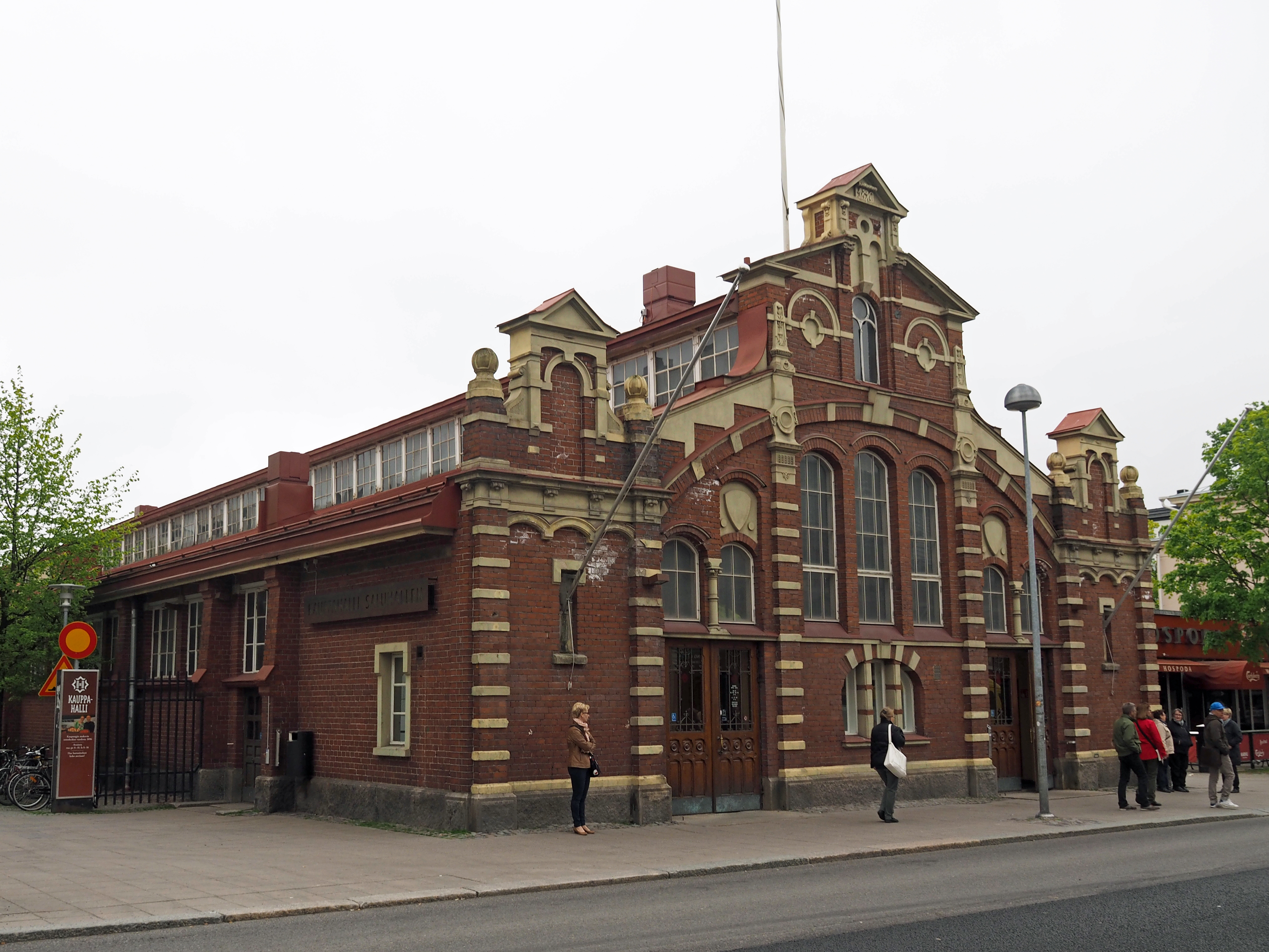 Turku Market Hall, Finland